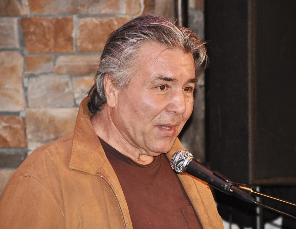 George Chuvalo at the River Rock Casino in April, 2010